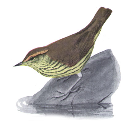 Northern Waterthrush Parkesia noveboracensis, offset printing after painting (watercolor or acrylic?). Altered from original plate.